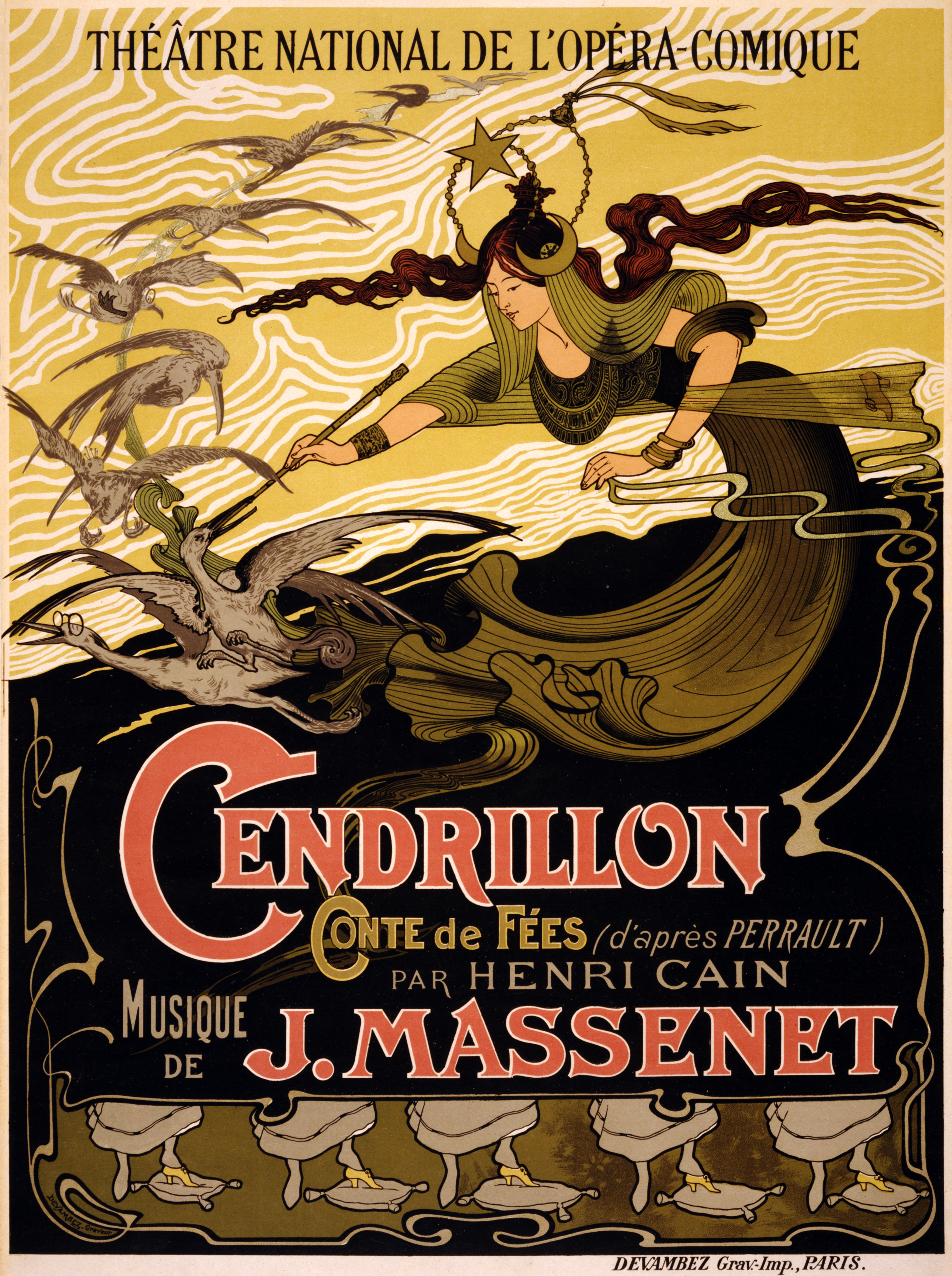 The poster for the opera "Cendrillon" by Jules Massenet